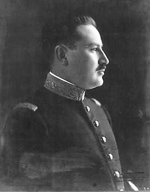 Manuel Pérez Treviño Jefe del Estado Mayor del Presidente Álvaro Obregón.